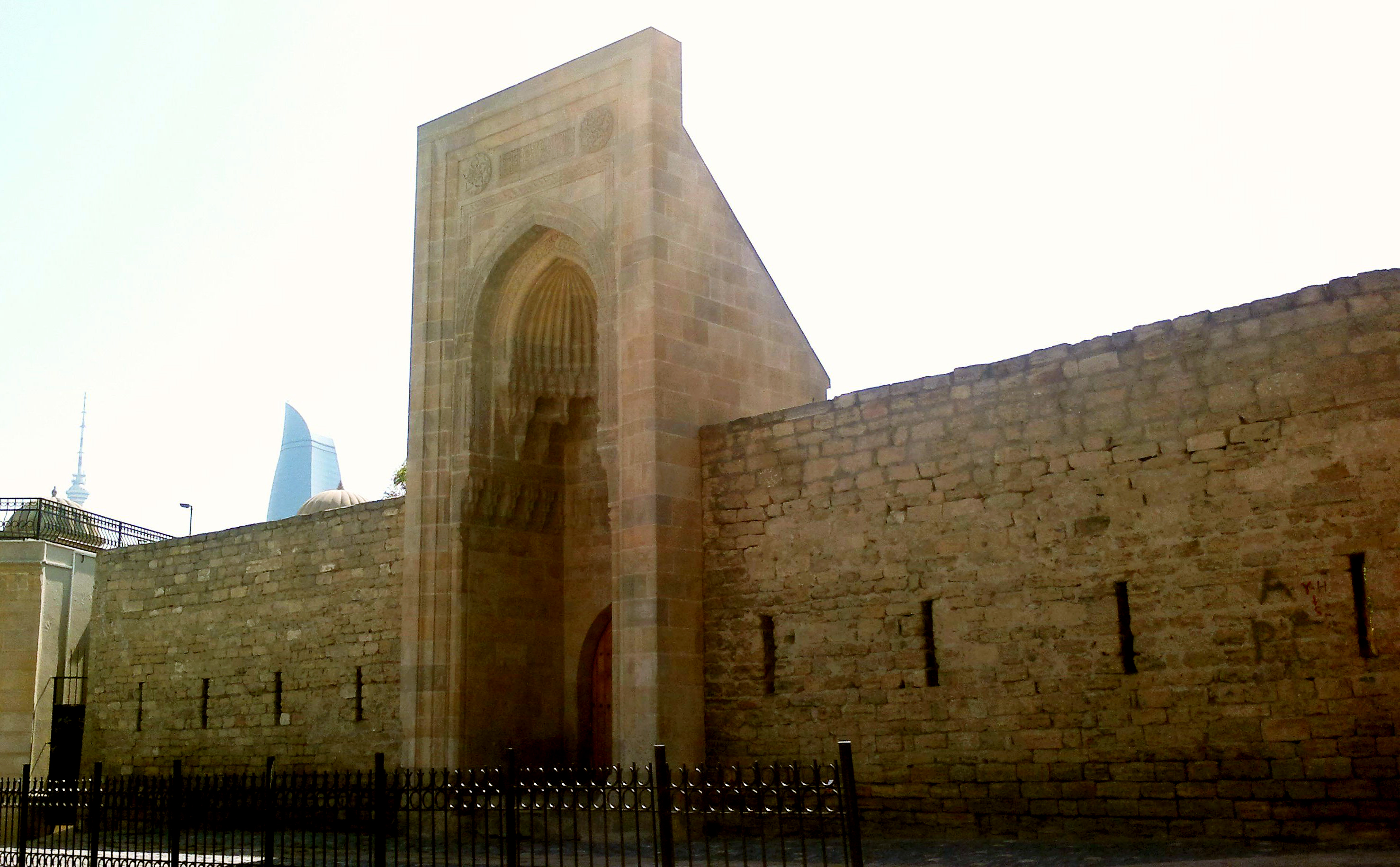 Eastern Portal of Palace of Shirvanshahs